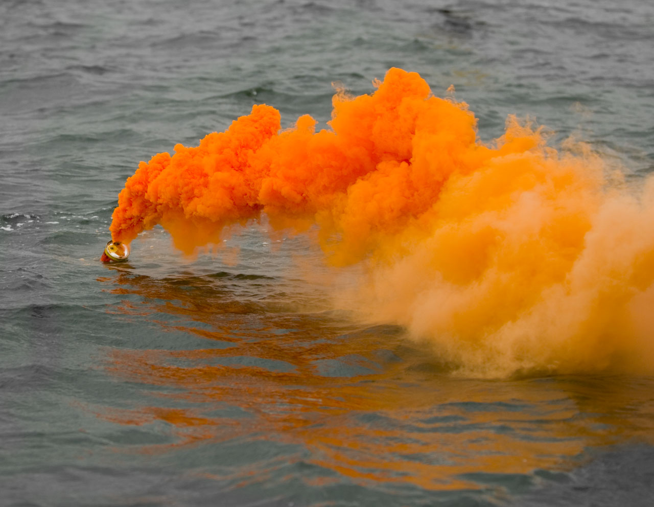 Smoke buoy in the water